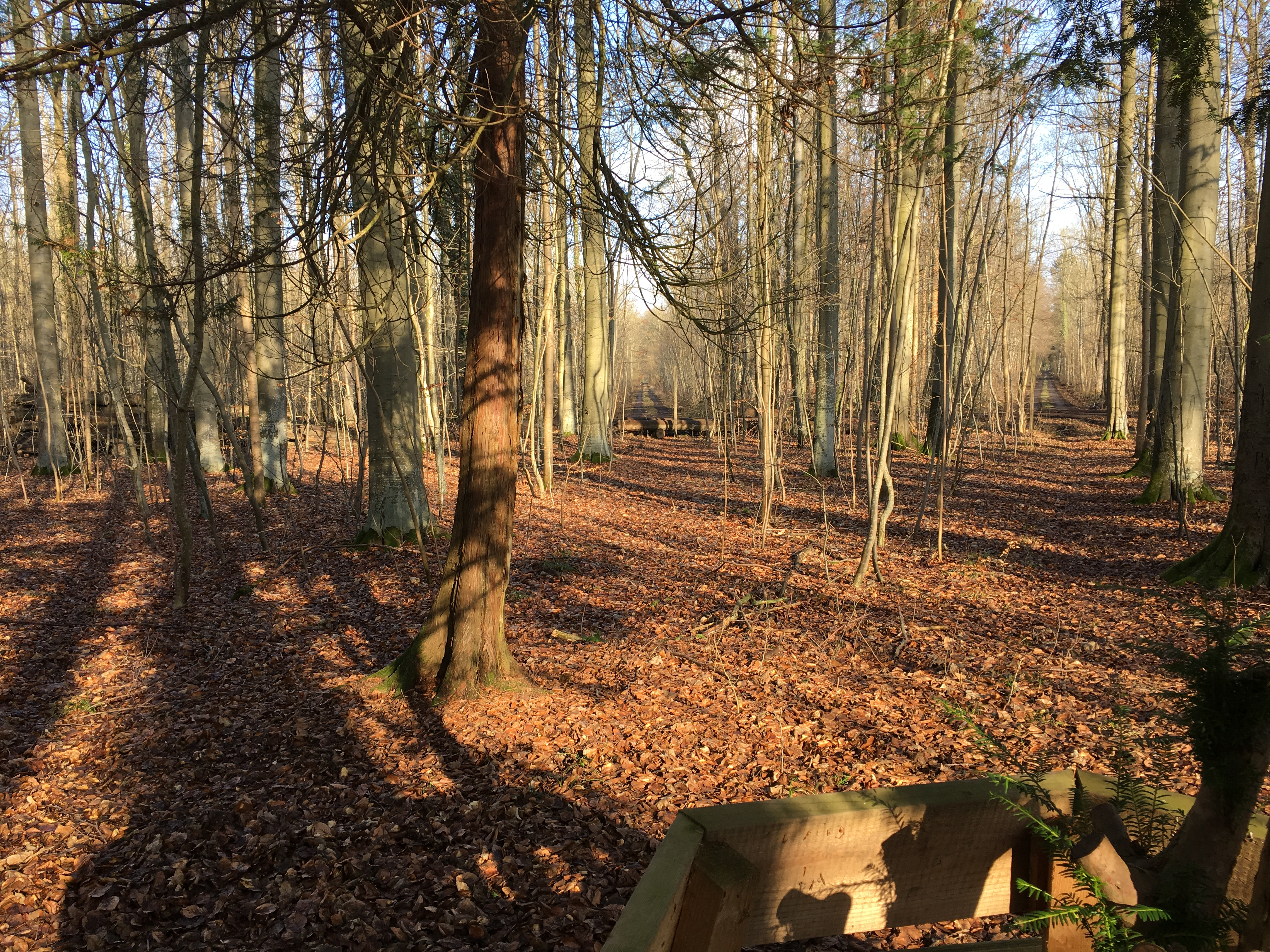 Kannenbruch